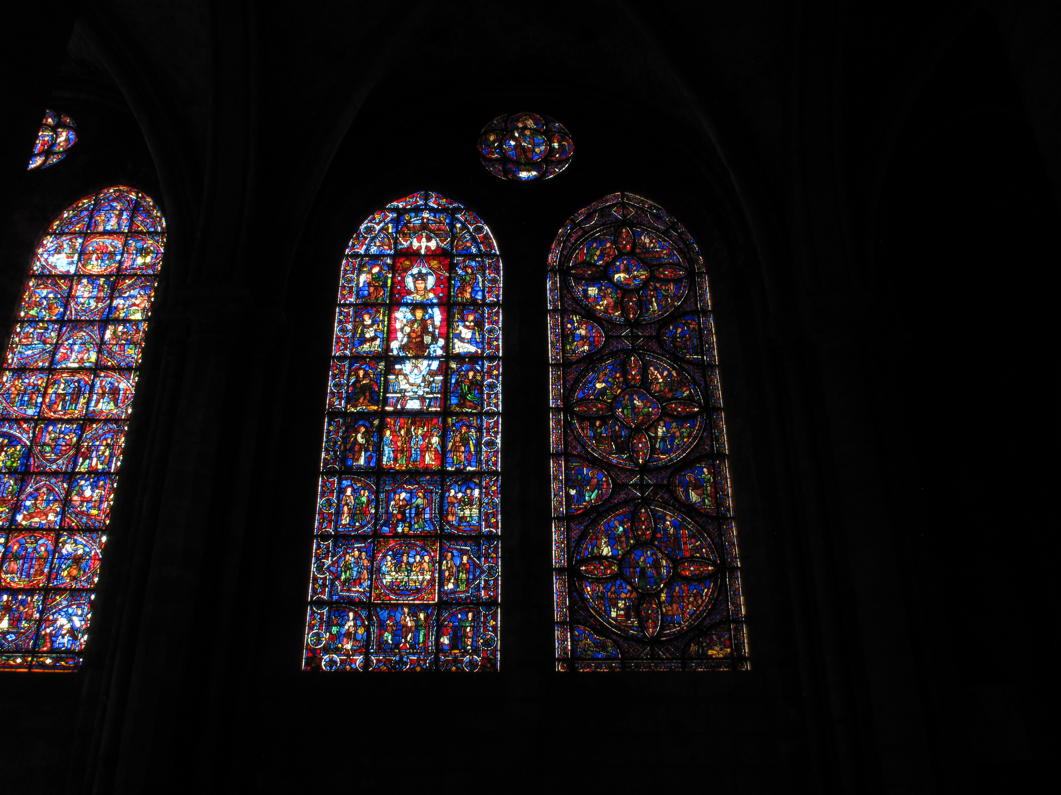 Chartres Cathedral.